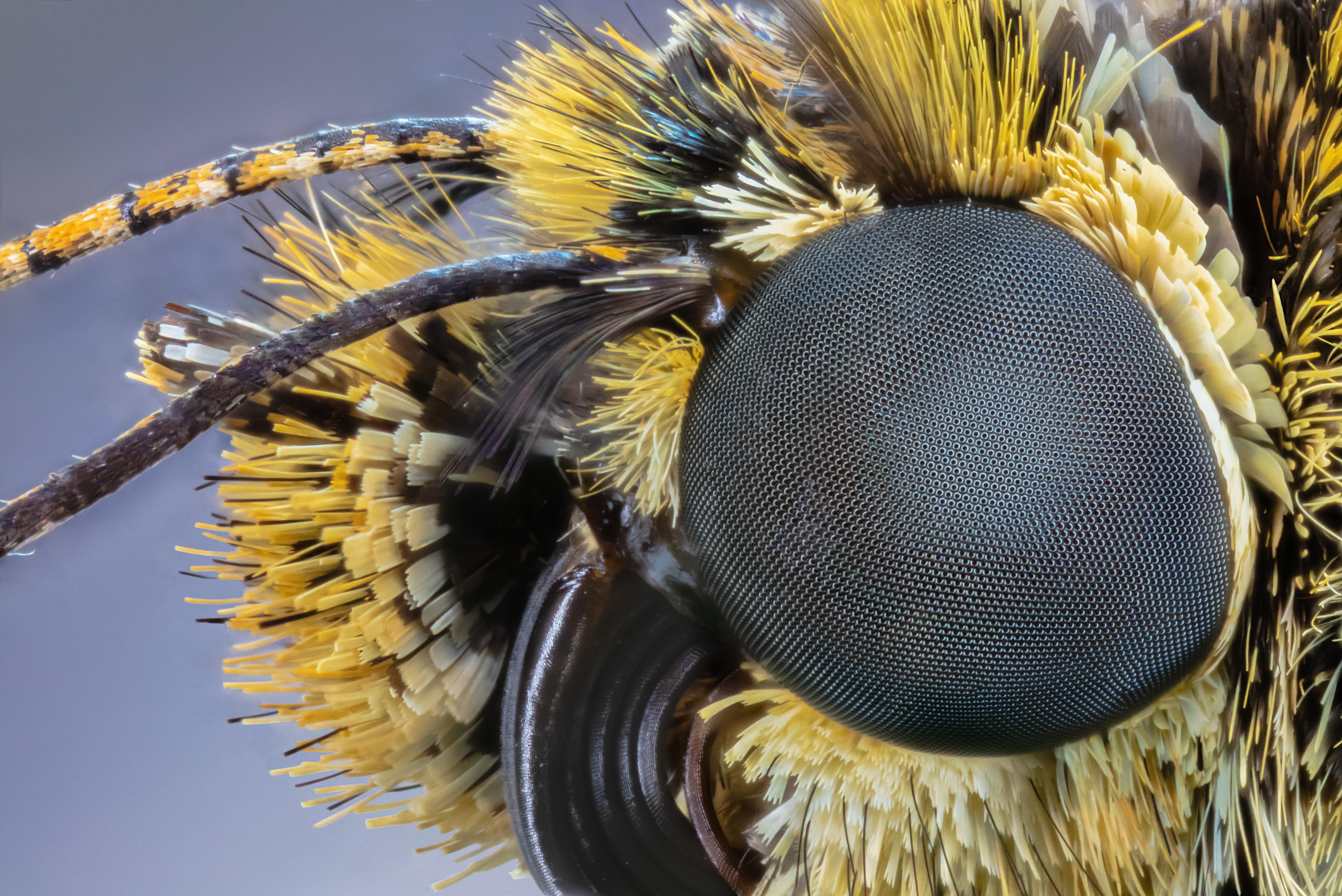 Specimen of Silver-spotted skipper (Hesperia comma), Hartelholz, Munich, Germany